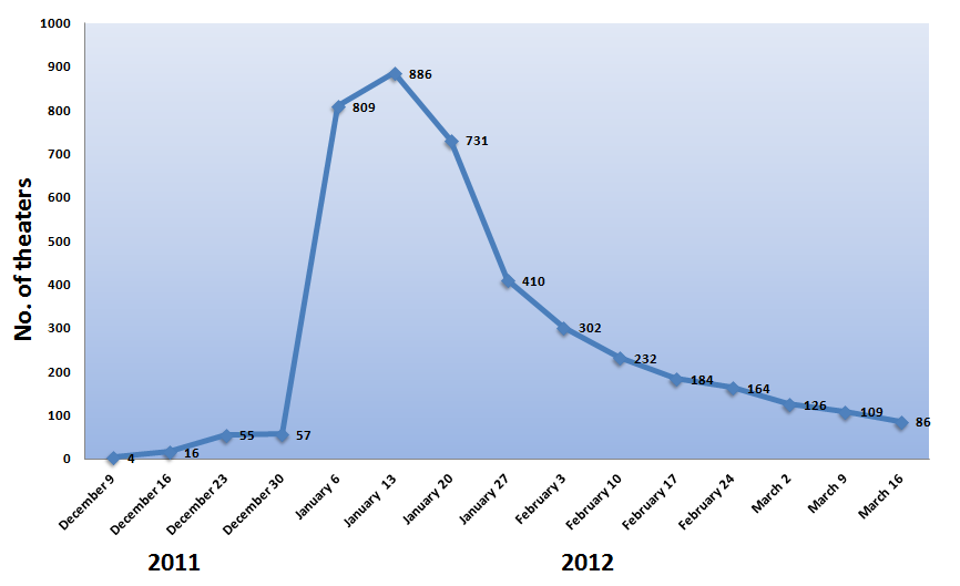 Graph to show number of movie theaters in which the film Tinker Tailor Soldier Spy played in 2011–2012. Information sources: Box Office Mojo